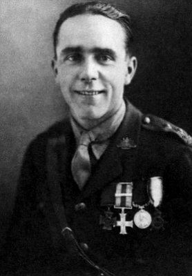 Joseph Maxwell (1896–1967) was an Australian recipient of the Victoria Cross during the First World War.